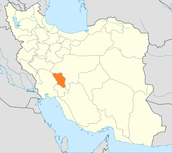 Locator map of Iran